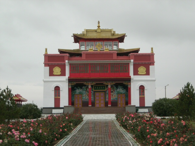 I took this photo during one of my visits to the Republic of Kalmykia.